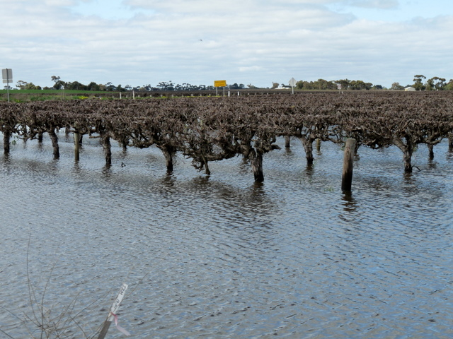 A Langhorne Creek vineyard a few days after the flooding of the nearby Bremer River in early spring